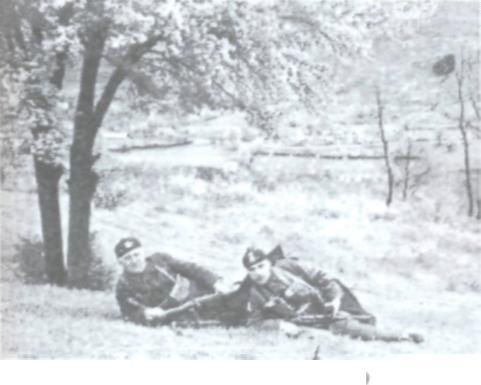 IMARO revolutionary